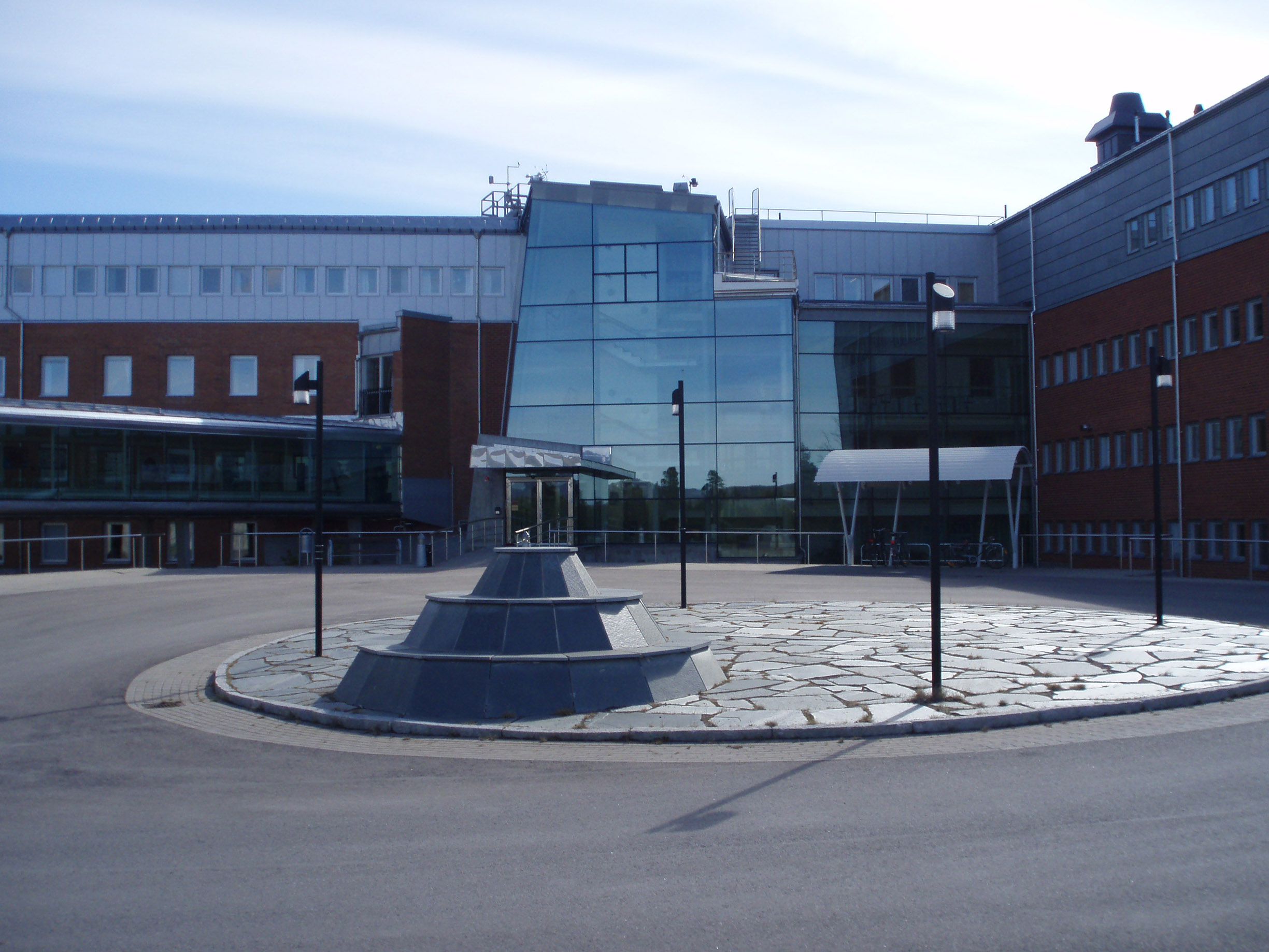 Entrance to Swedish Institute of Space Physics